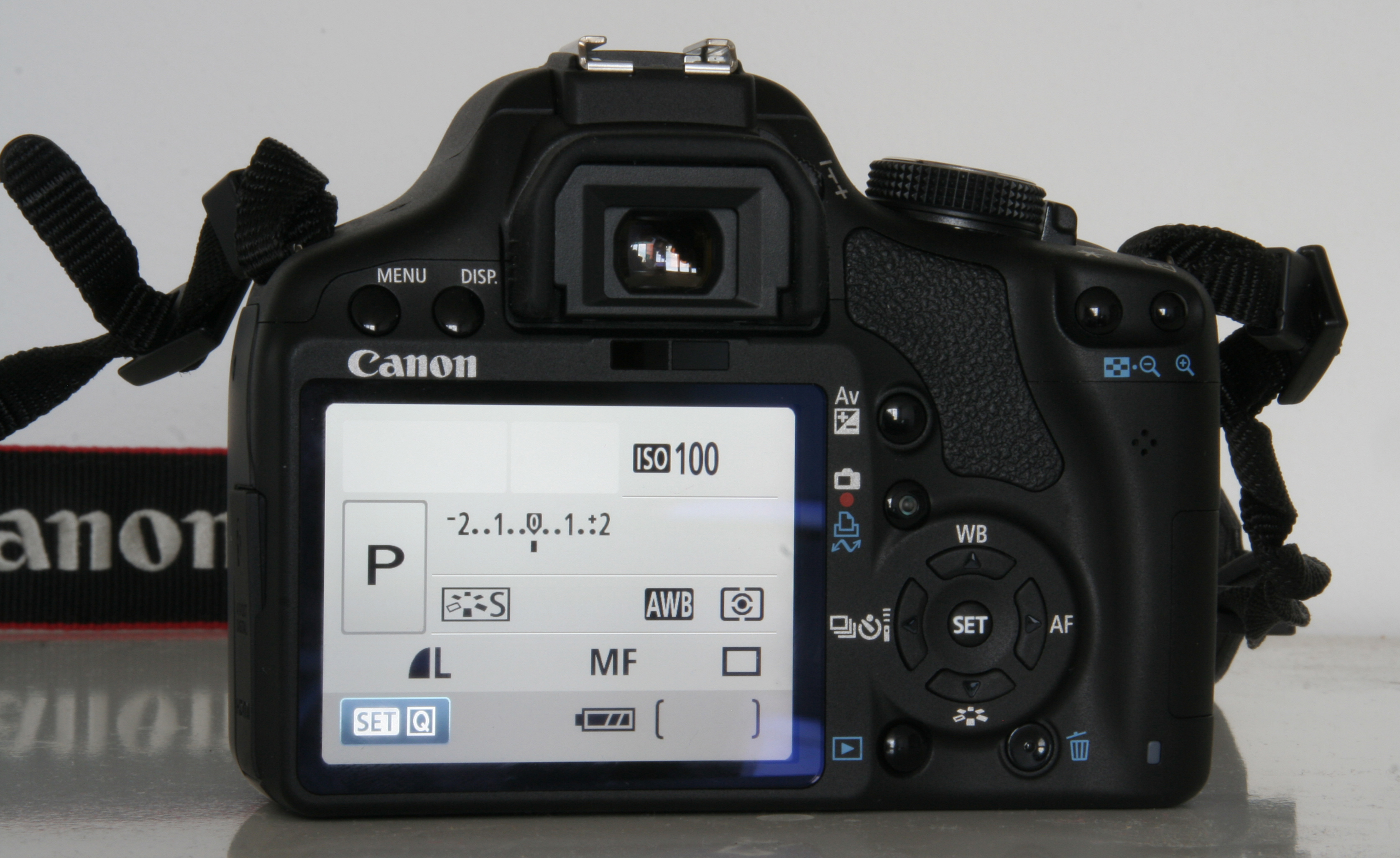 Canon EOS 500D backside